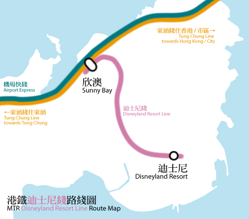 港鐵迪士尼綫路線圖（按真實地形繪畫） Geographically accurate map of the MTR Disneyland Resort Line By Bus_28a, Mtrkwt